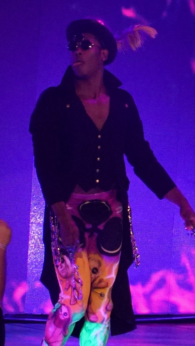 NOLA 2018 - WWE NXT Takeover - New Orleans - Adam Cole Vs EC3, Killian Dain, Lars Sullivan, Ricochet, The Velveteen Dream Adam Cole def. EC3, Killian Dain, Lars Sullivan, Ricochet, The Velveteen Dream (in 31:16) Type of match : ladder (6-way) For : NXT North American Championship (title change) Rating : ***** ( Deux semaines a Nola pour la ville et pour WWE Wrestlemania XXXIV Two weeks Nola for the city and for WWE Wrestlemania XXXIV )